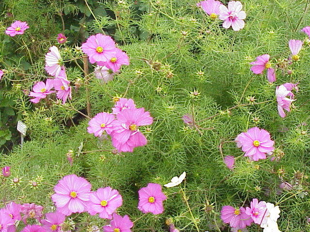 Species: Cosmos bipinnatus Family: Compositae Image No. 5